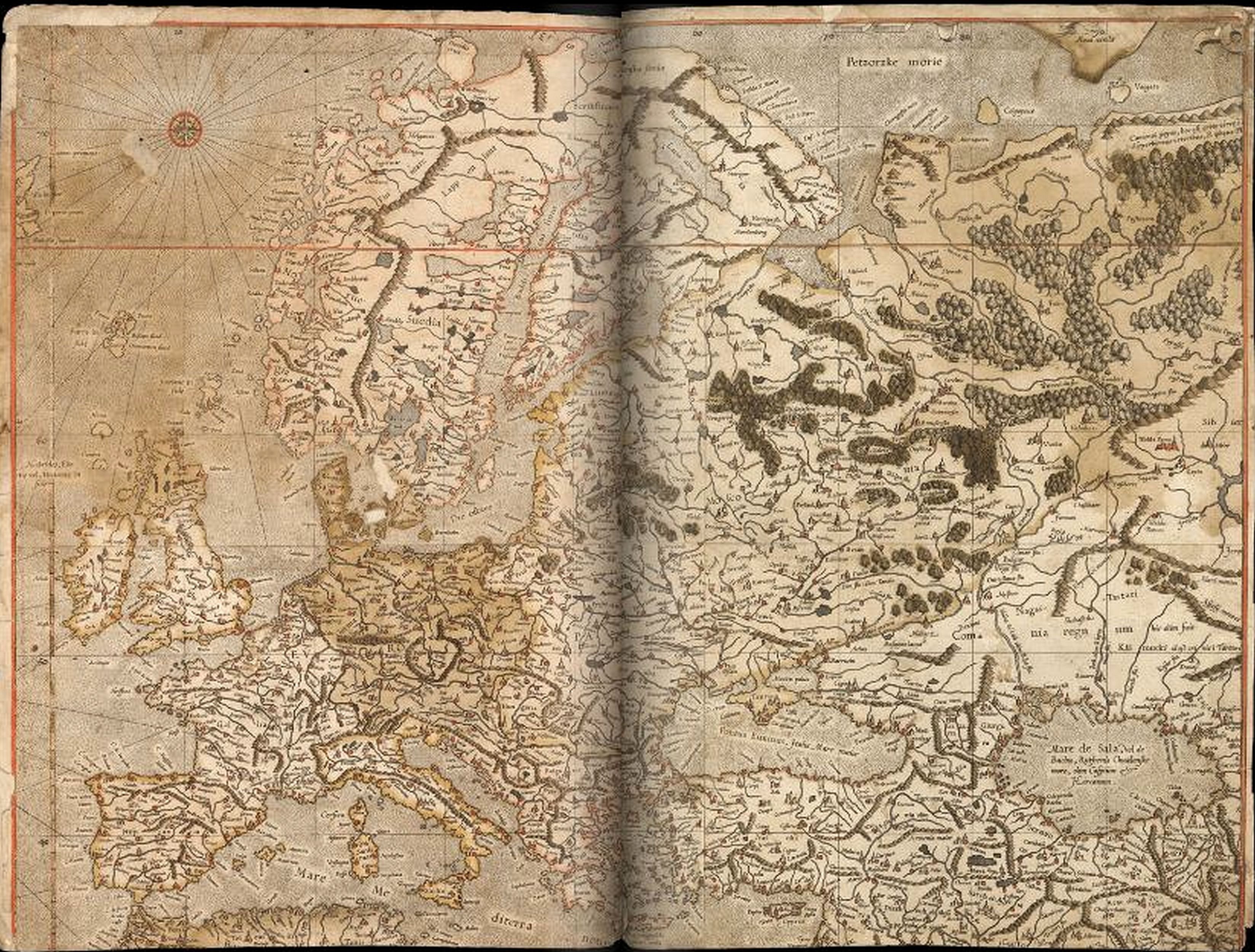 Map of Europe